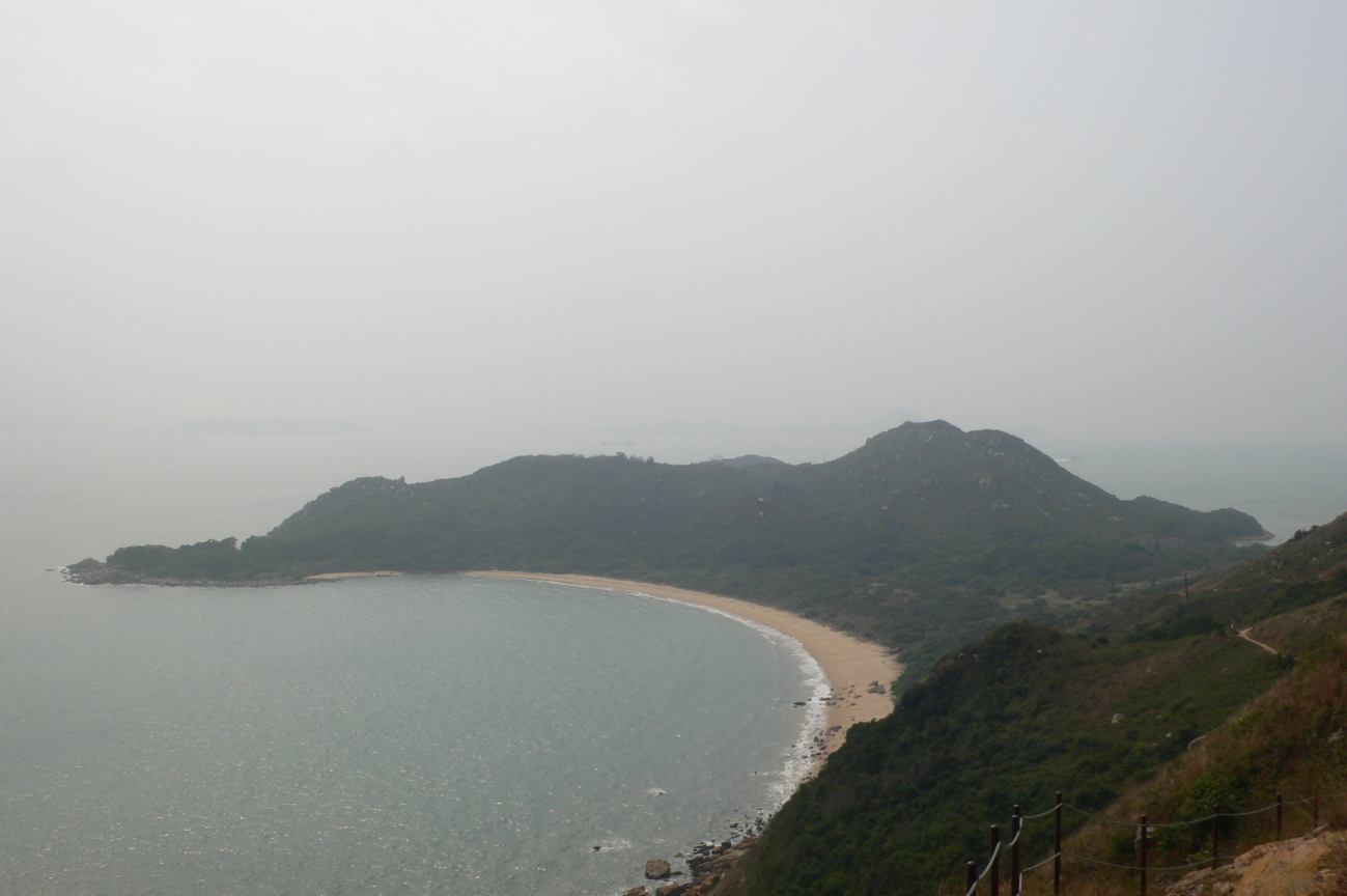 Fan Lau, a peninsula located in the Western part of Lantua Island, which is almost the farmost western part of Hong Kong